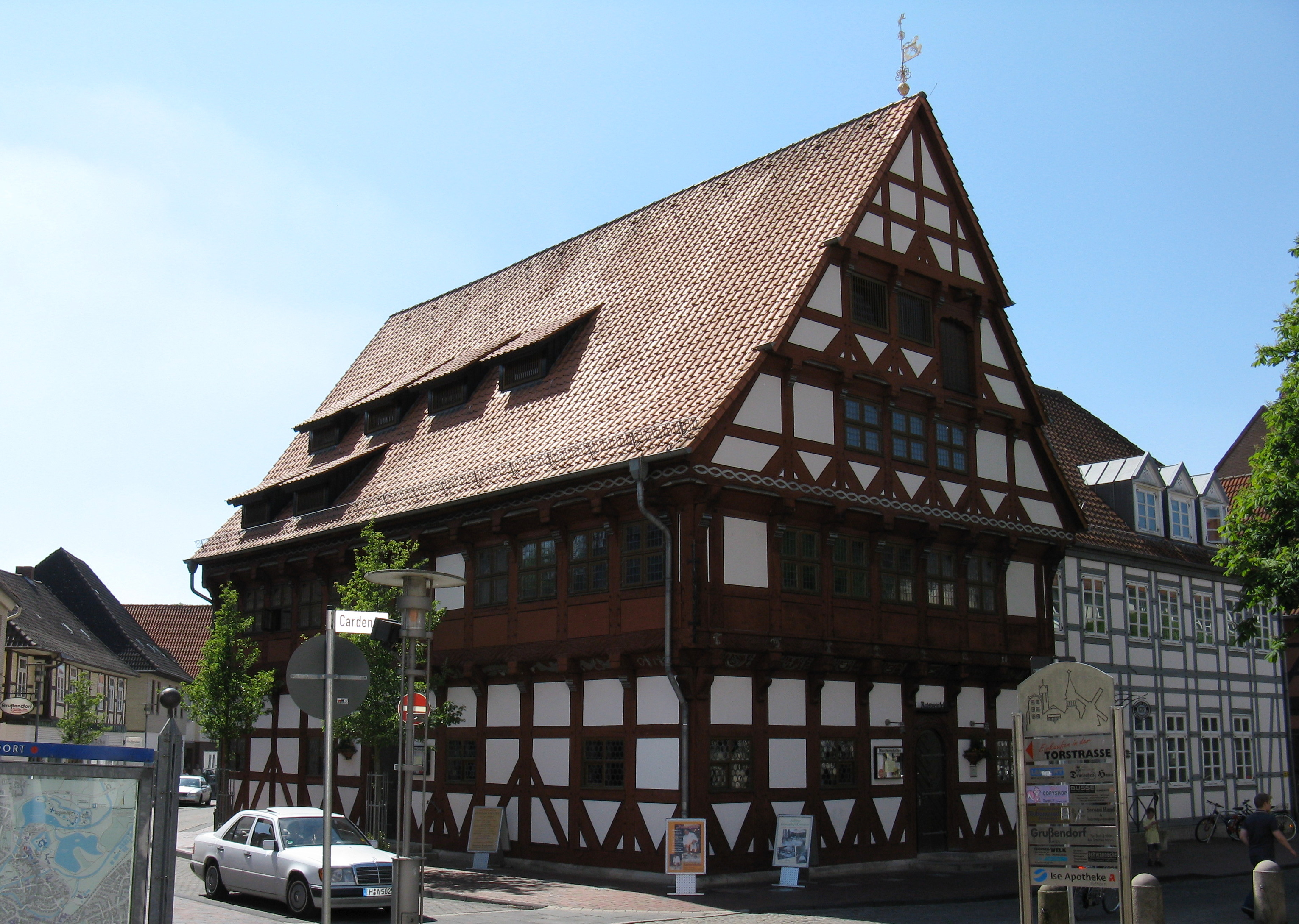 Old town hall in Gifhorn (Lower Saxony, Germany)